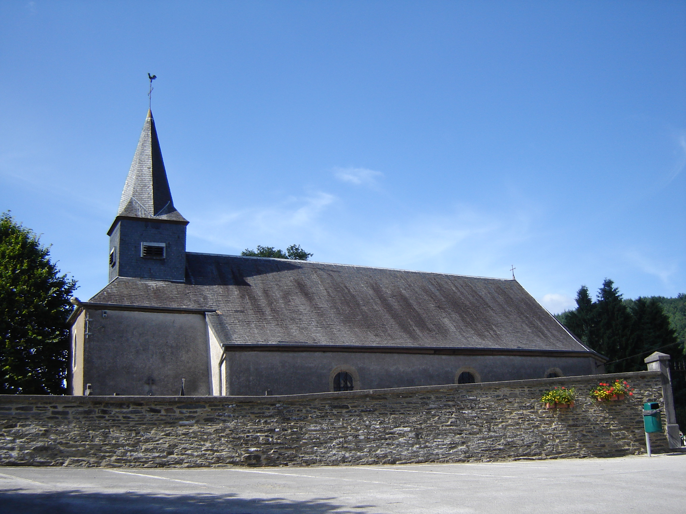 Church of Saint Walfroid in Chairière. Chairière, Vresse-sur-Semois, Namur, Belgium